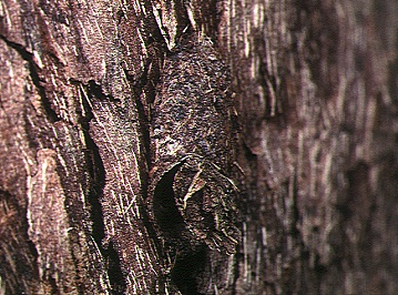 nest of Ummidia fragaria from Okinawa.